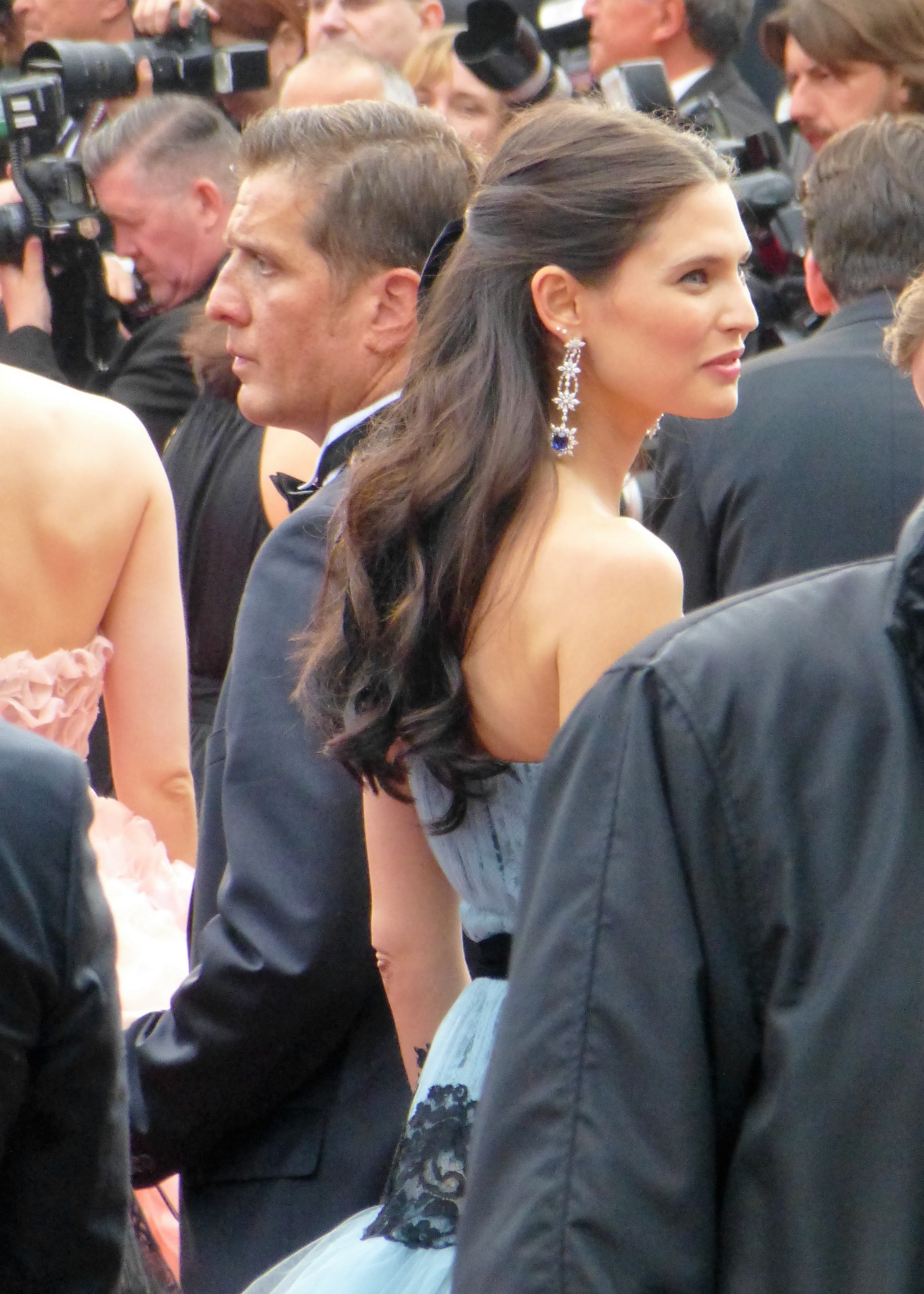 Bianca Balti at the world premiere of Cafe Society, 2016 Cannes Film Festival.